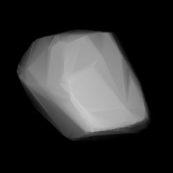 3D convex shape model of 982 Franklina, computed using light curve inversion techniques. J. Hanuš, J. Ďurech, M. Brož, B. D. Warner (June 2011). "A study of asteroid pole-latitude distribution based on an extended set of shape models derived by the lightcurve inversion method". Astronomy and Astrophysics 530: A134. ISSN 0004-6361. arXiv